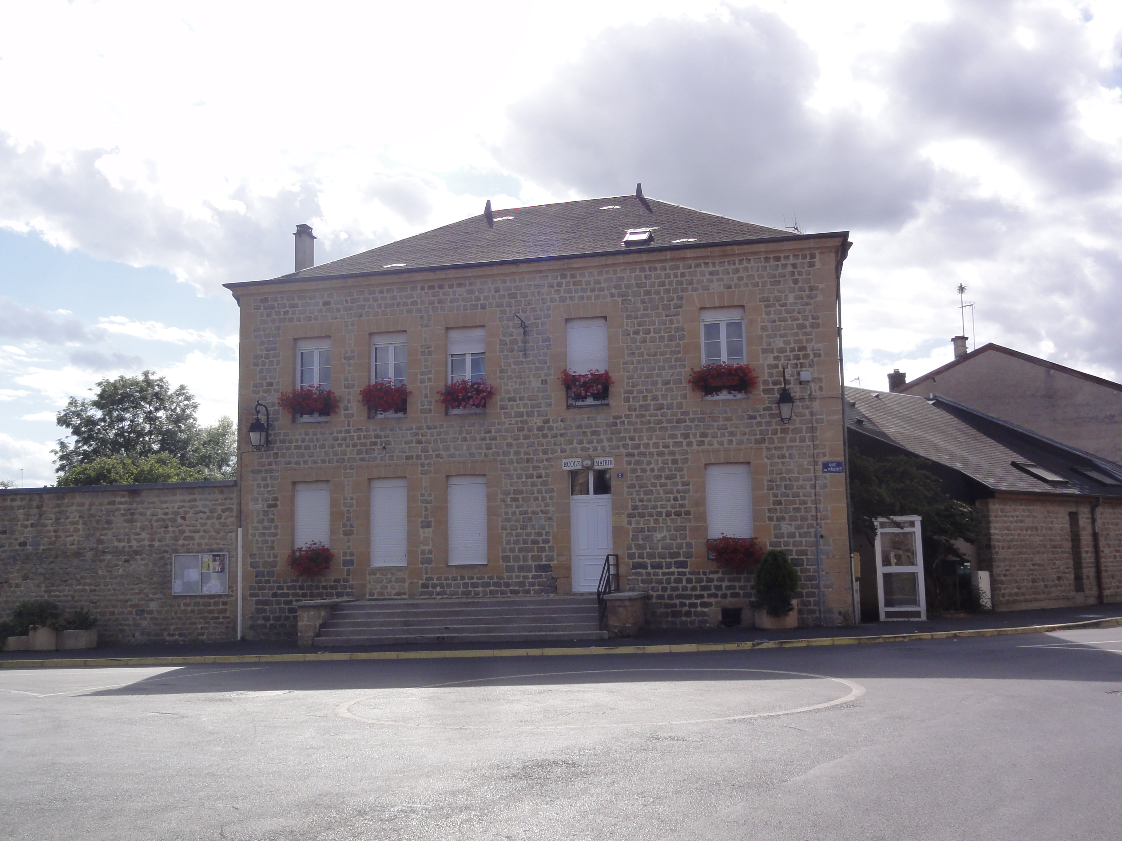 Damouzy (Ardennes) école - mairie